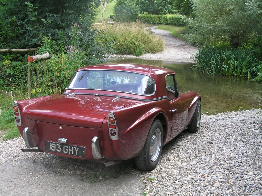 Daimler Dart 1959 rear view